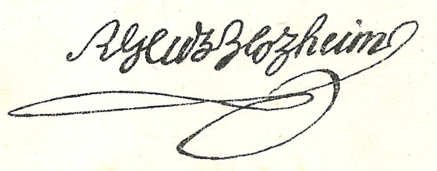 Signature of Robert Glutz von Blotzheim (1786-1818), Swiss historian, writer, librarian, and journalist.